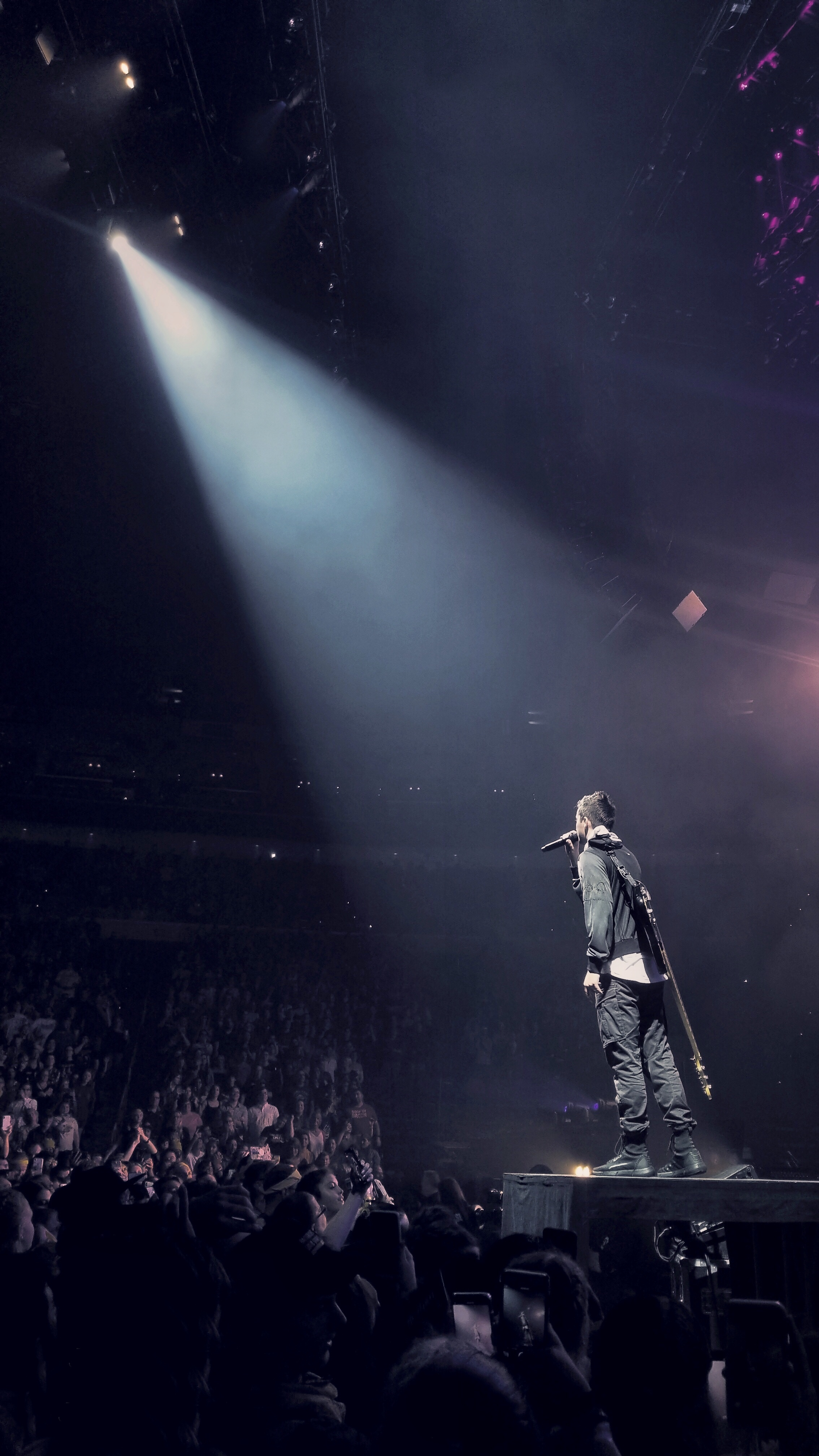 The Bandito Tour.